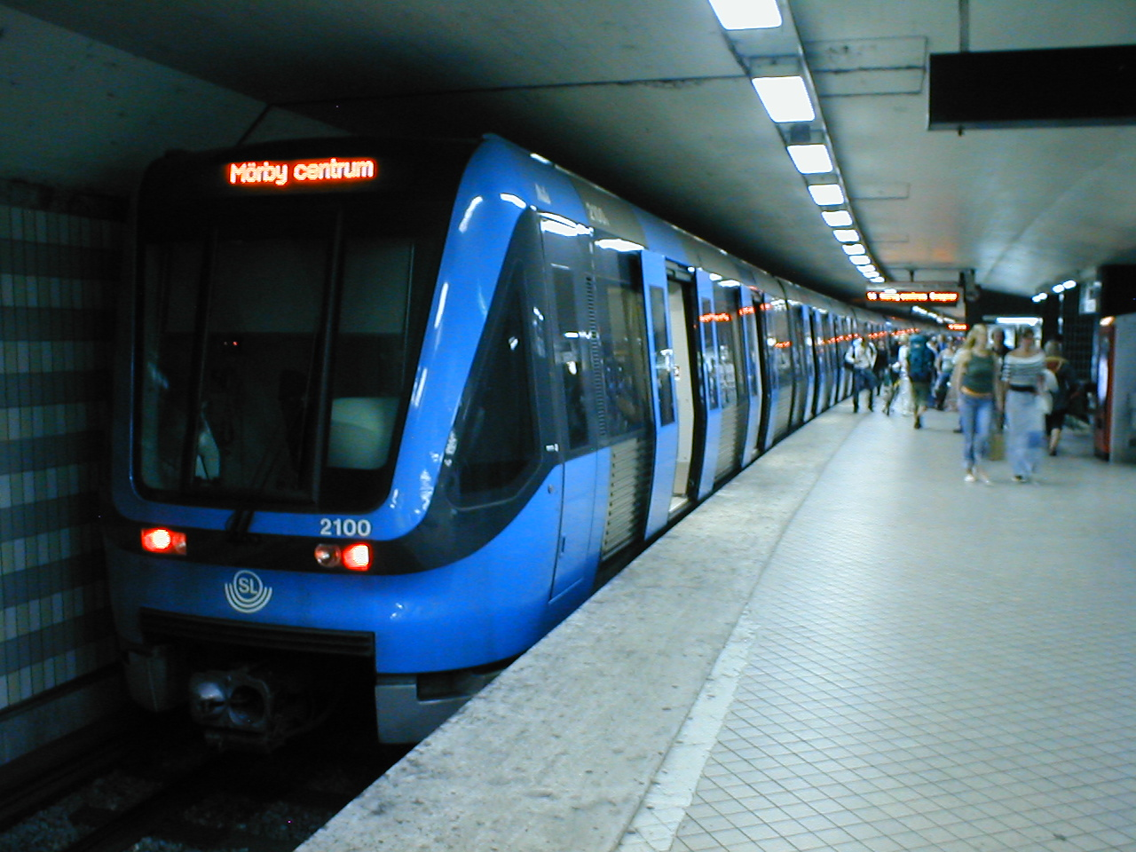 Stockholm Tunnelbana, train type C20